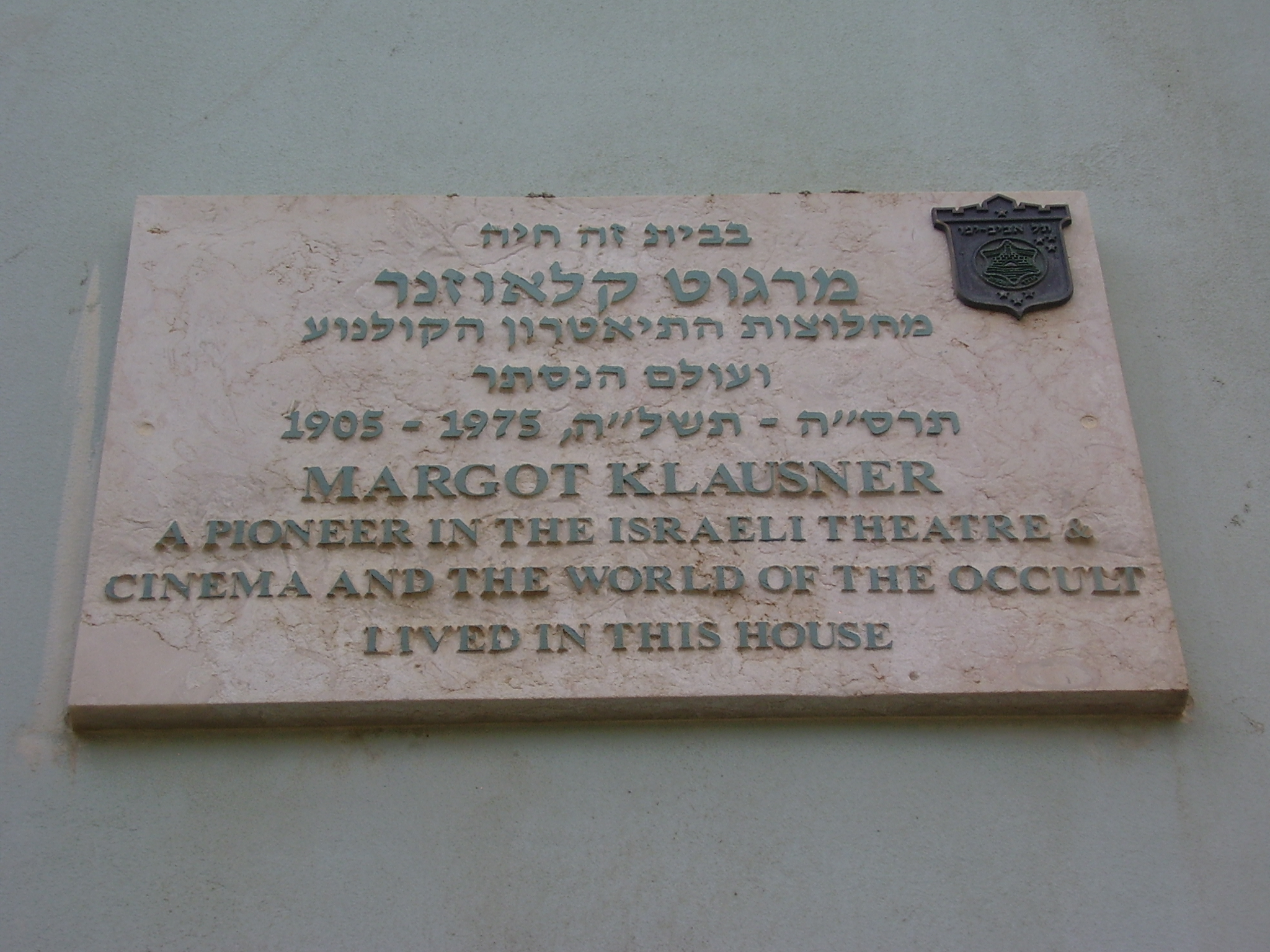 memorial plaque to margot klausner in tel aviv לוחית זיכרון למרגוט קלאוזנר על ביתה בשדרות בן גוריון 2 בתל אביב